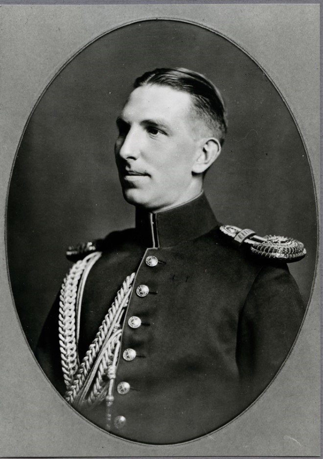 Swedish army officer Nils Gustaf Knut Bildt (1889-1969)